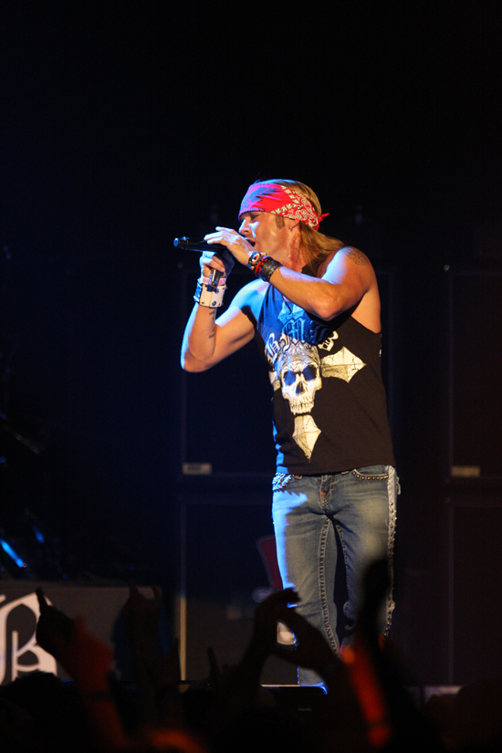 Bret Michaels Motley Crue Sydney Entertainment Centre